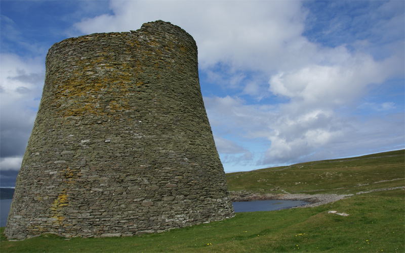 Mousa Broch, Shetland, Scotland